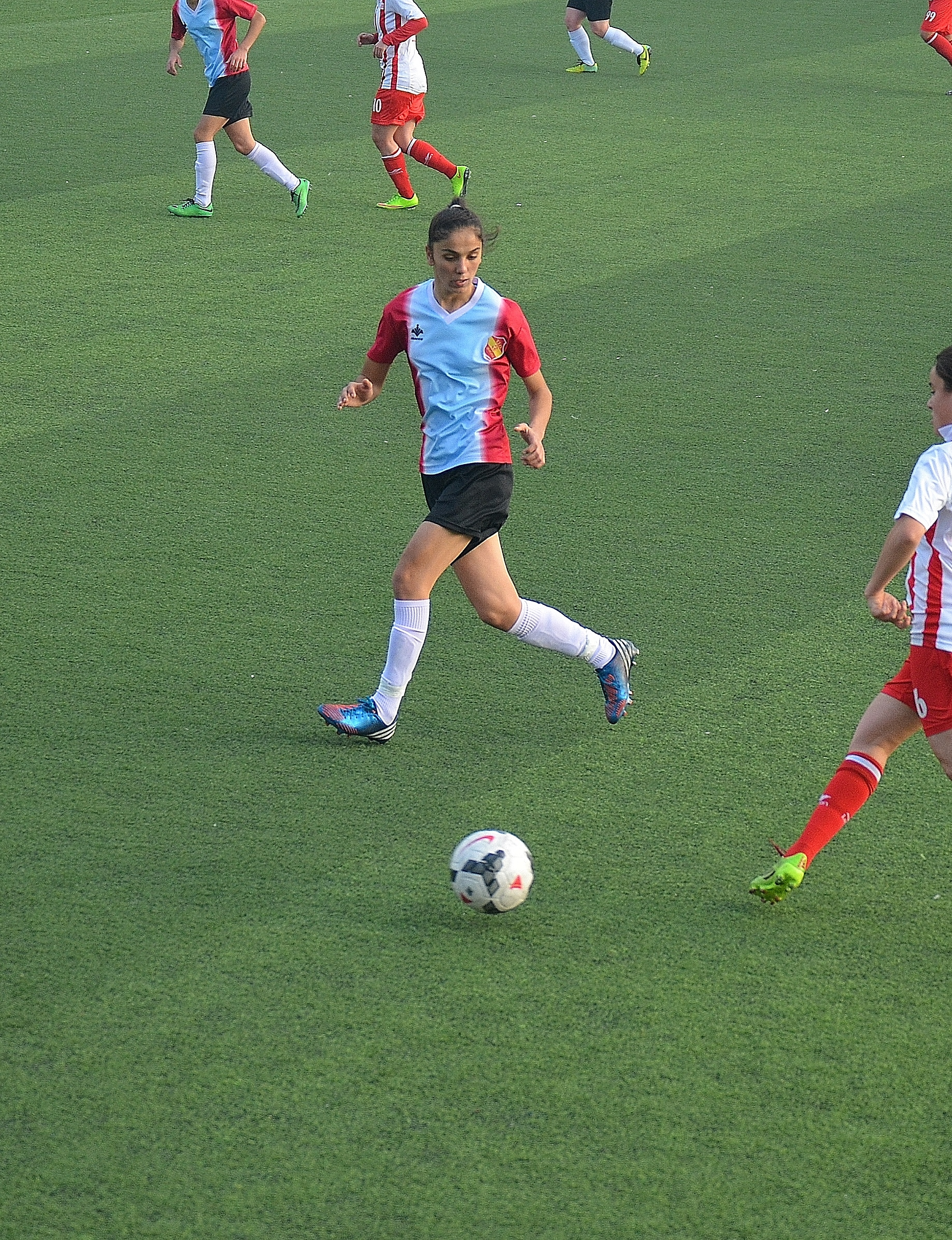 Eda Karataş for Trabzon İdmanocağı (women) in the away match of the 2014-15 season against Ataşehir Belediyespor